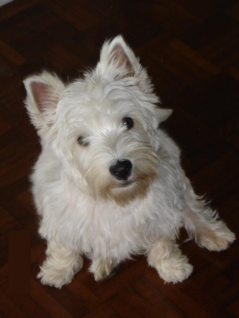 5 month old West Highland White Terrier puppy